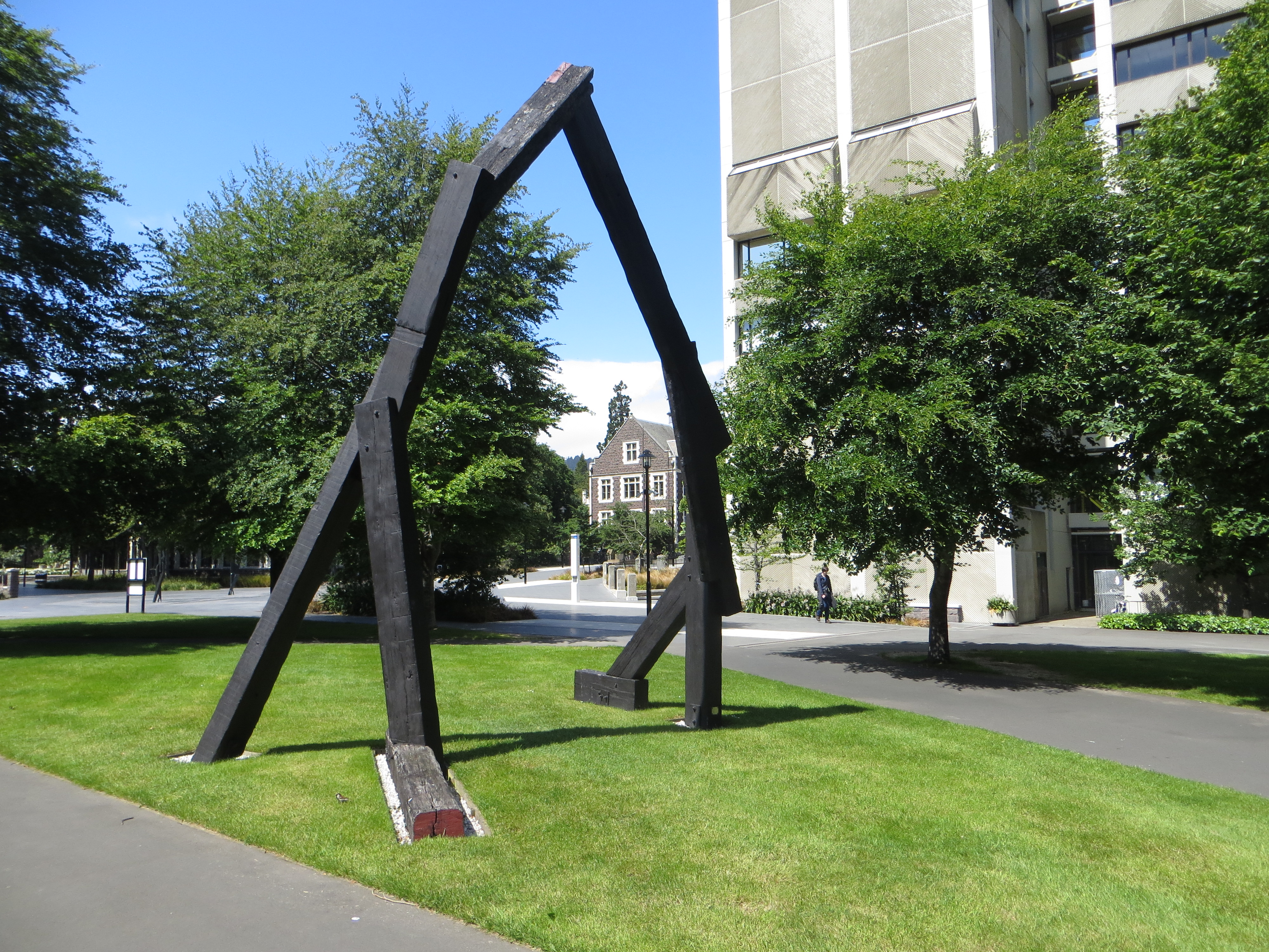 An image of the 1985–86 sculpture Bridge by Peter Nicholls, situated on the campus of the University of Otago in Dunedin, New Zealand.